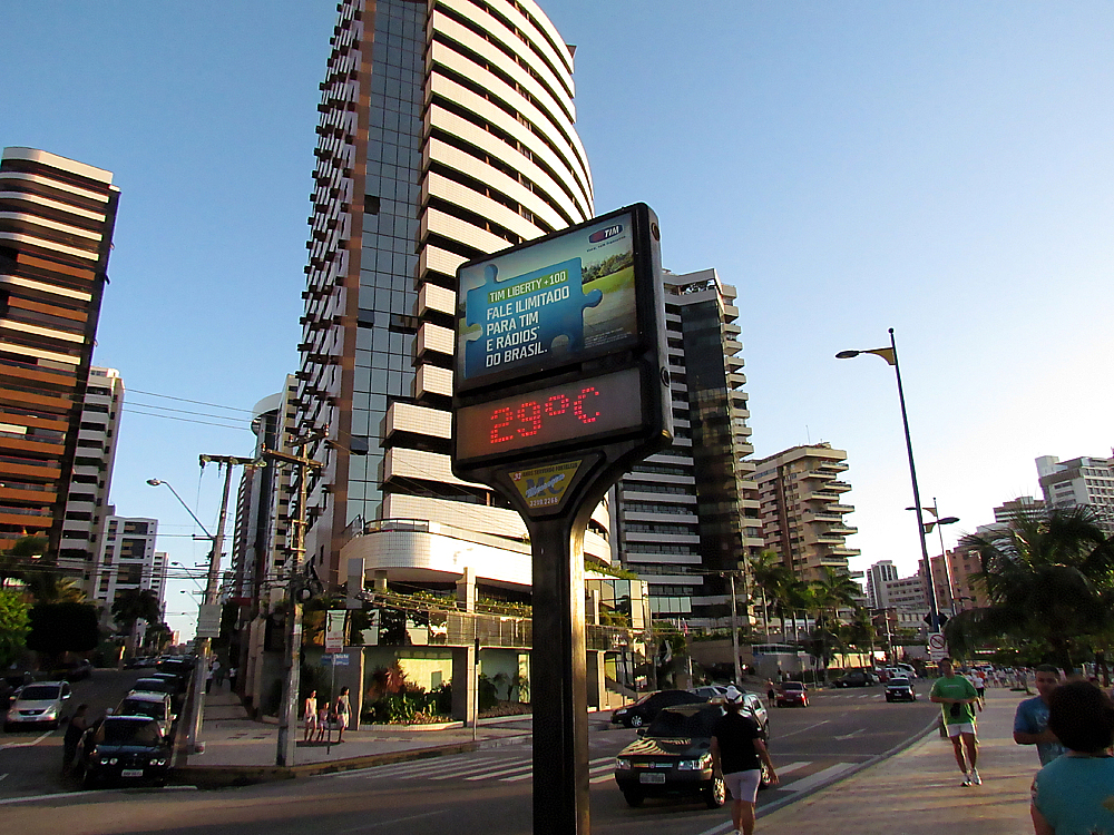 Temperature in Fortaleza